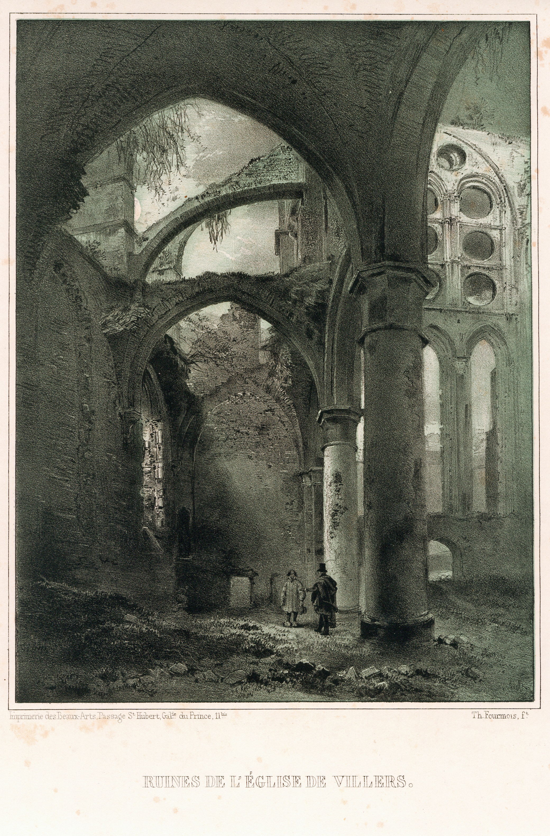 Ruins of the abbey of Villers-la-Ville (Belgium). Lithograph by Théodore Fourmois, 1833.